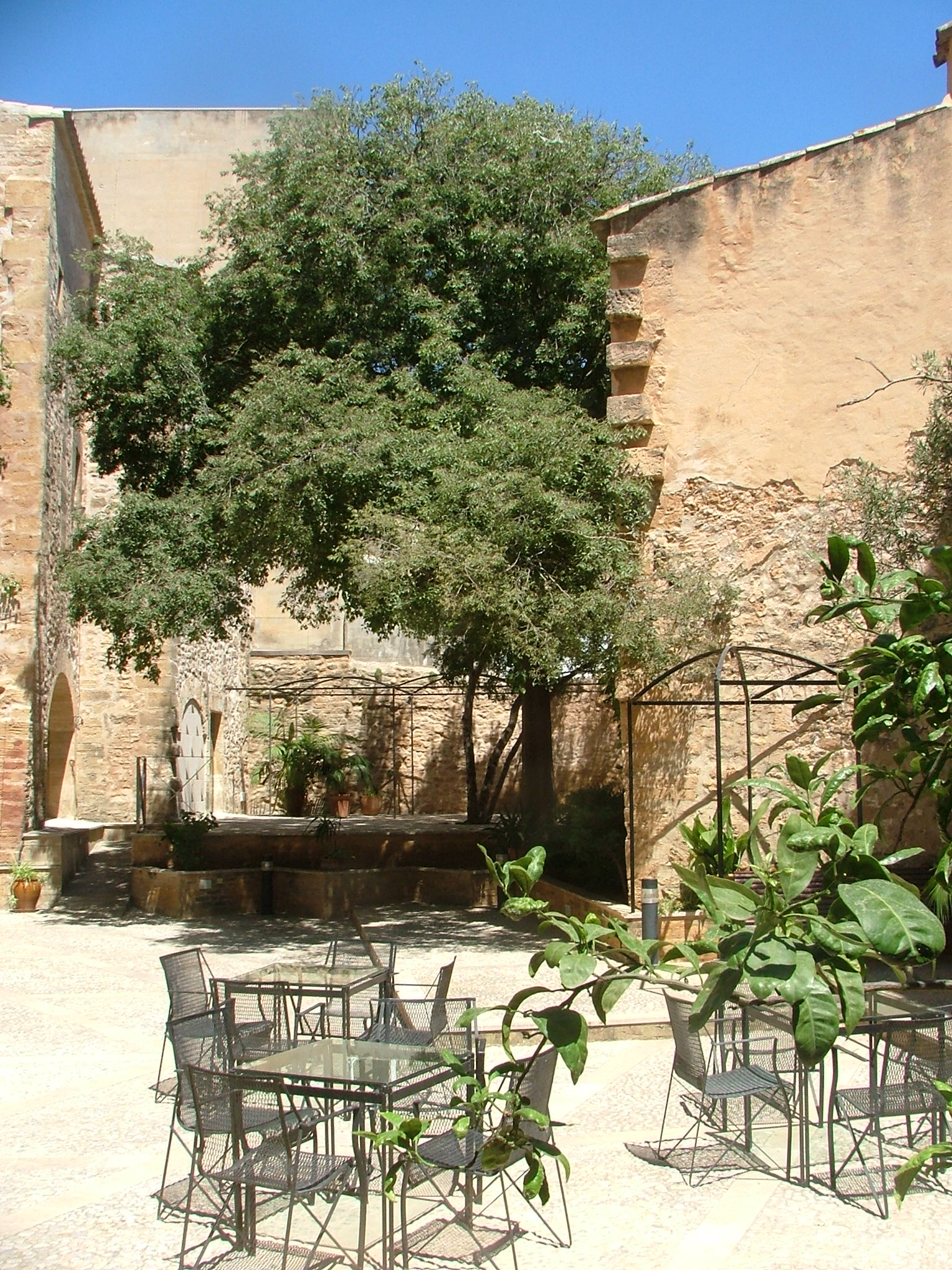 Patio of the library (Biblioteca) Can Torrò of Alcudia, Mallorca, Spain